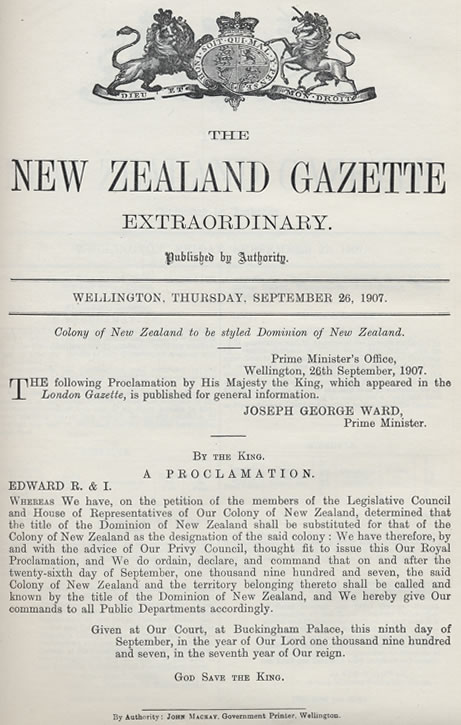 'Dominion status Gazette notice, 1907', (Ministry for Culture and Heritage)